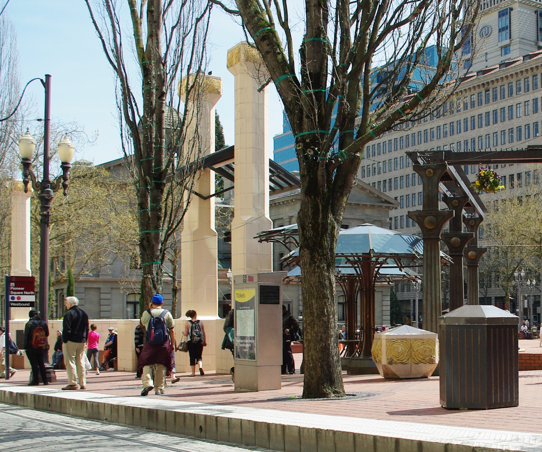 MAX station on the north side of Pioneer Courthouse Square. Westbound.